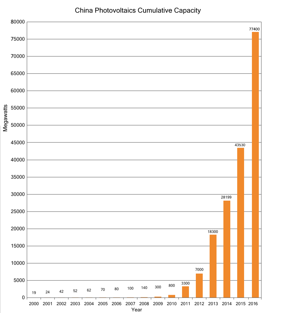 PV capacity growth in China (updated for the year 2016).